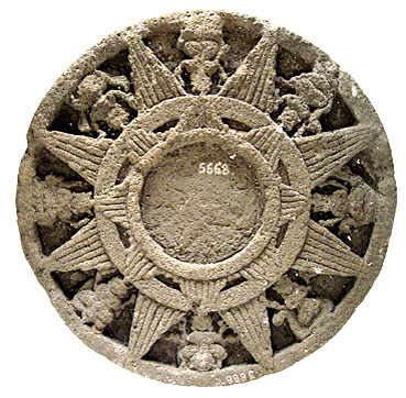 'Surya Majapahit' or 'The Sun of Majapahit' is the emblem common found in temples and ruins dated from Majapahit era. Some scholars suggested that this sun disc was the royal emblem of Majapahit, probably functioned as the coat of arms of Majapahit empire. The sun disk is stylized with carved ray of light; surrounded by eight Lokapala gods, the eight Hindu gods that guarded eight cardinal points of the universe. There's other version of Majapahit's Sun, such as sun disc with sun god Surya riding a celestial horse or chariot, to just a simple sun disc with stylized ray of light. (Collection of National Museum of Indonesia, Jakarta)